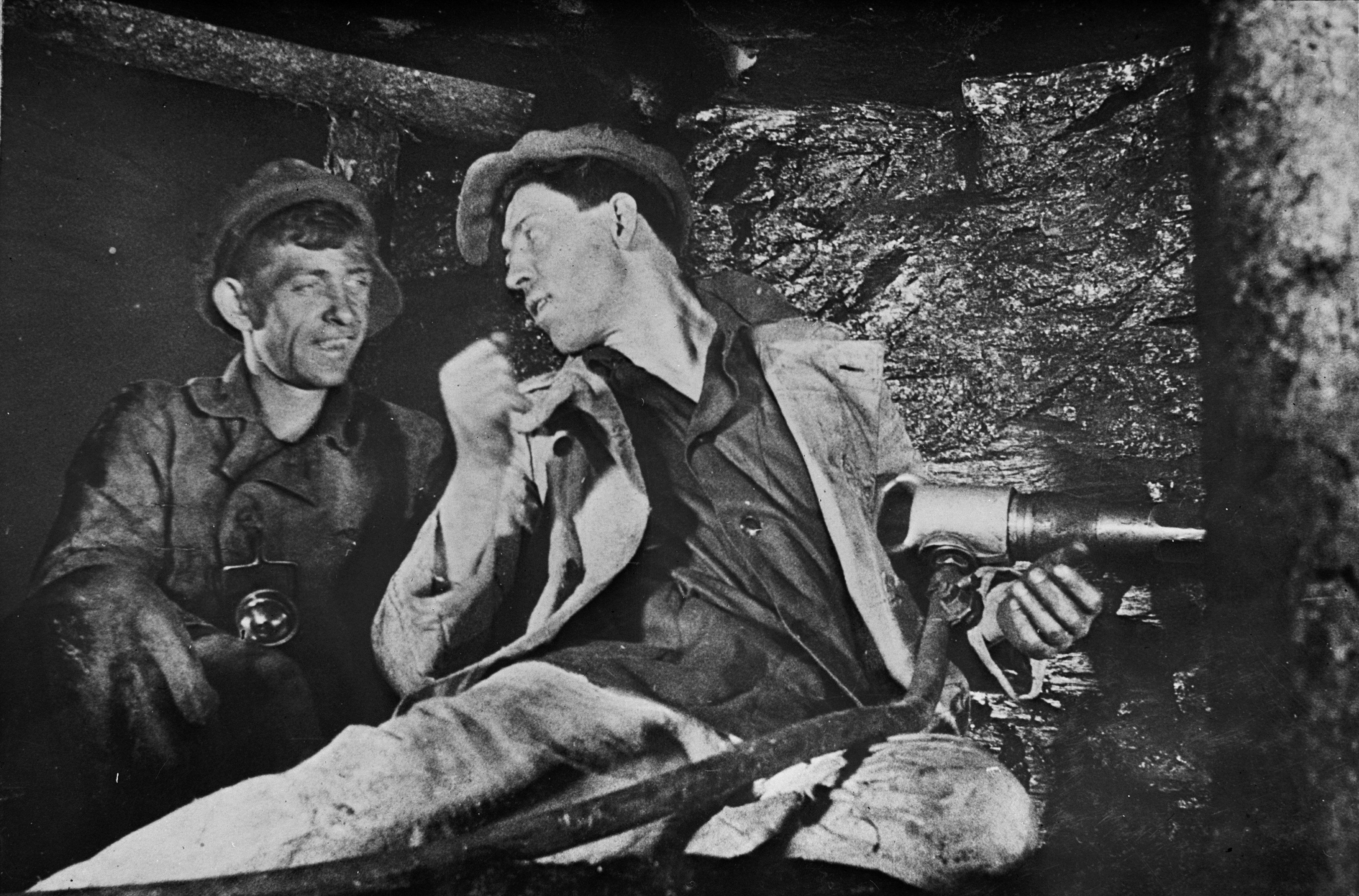 Alexei Stakhanov (centre) explaining his system to a fellow miner in the USSR (Union of Soviet Socialist Republics)